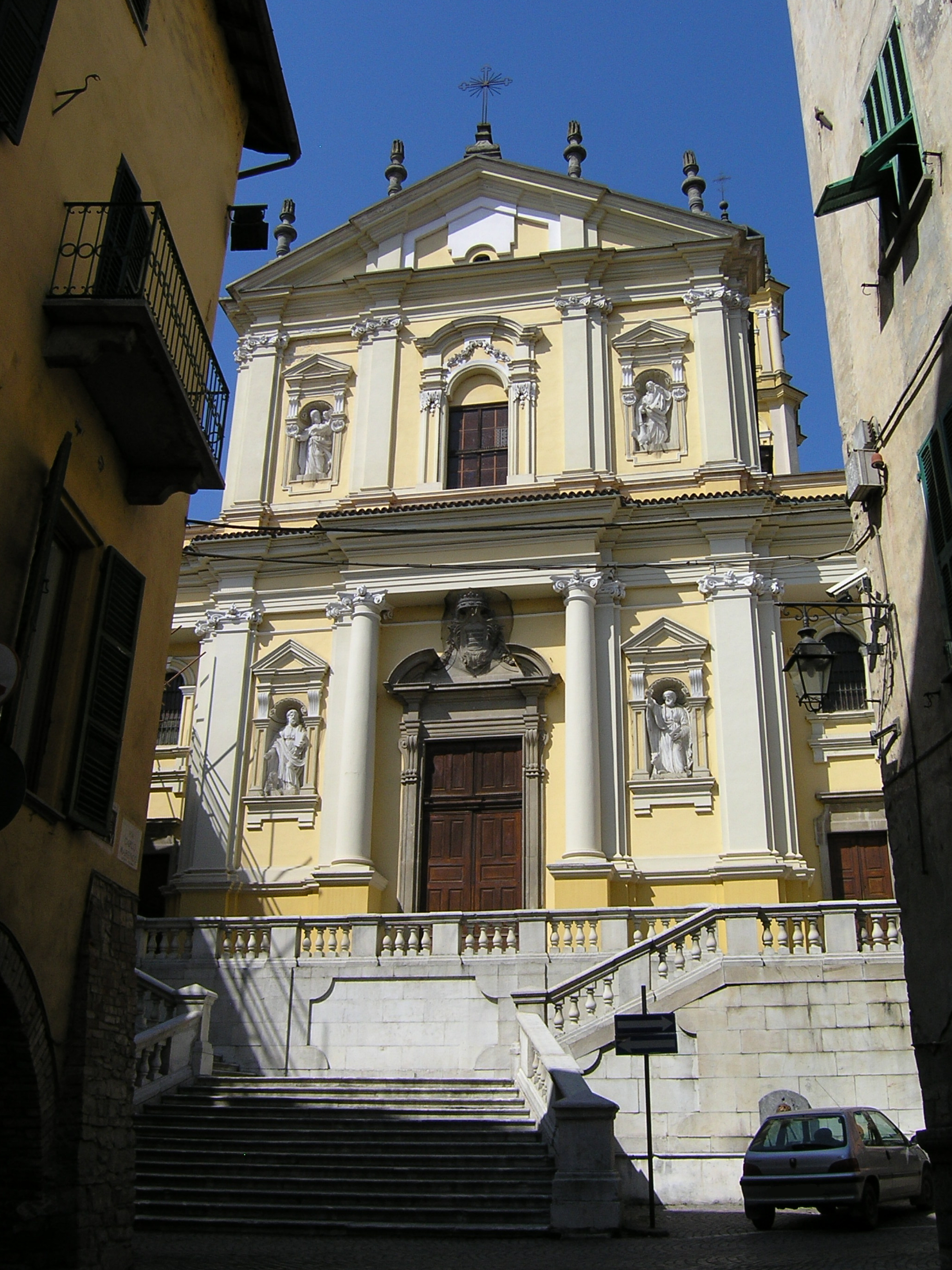 Picture of the master church of Ceva (Italy)